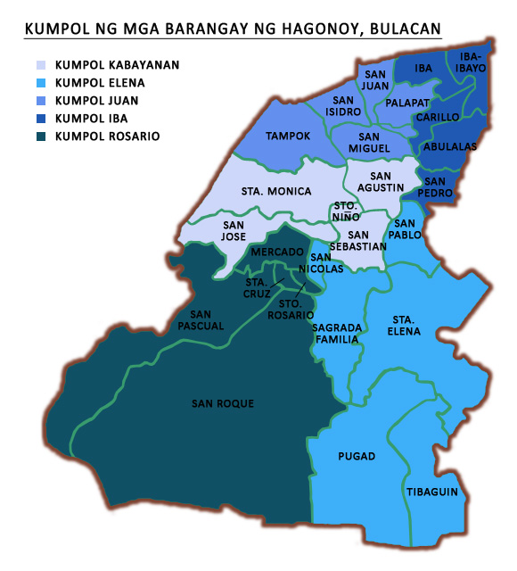 Map of Hagonoy, Bulacan showing its 26 barangays grouped into 5 clusters (in Tagalog language).